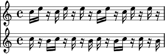 Example of gamelan technique "kotekan telu". Rendered with GNU Lilypond.